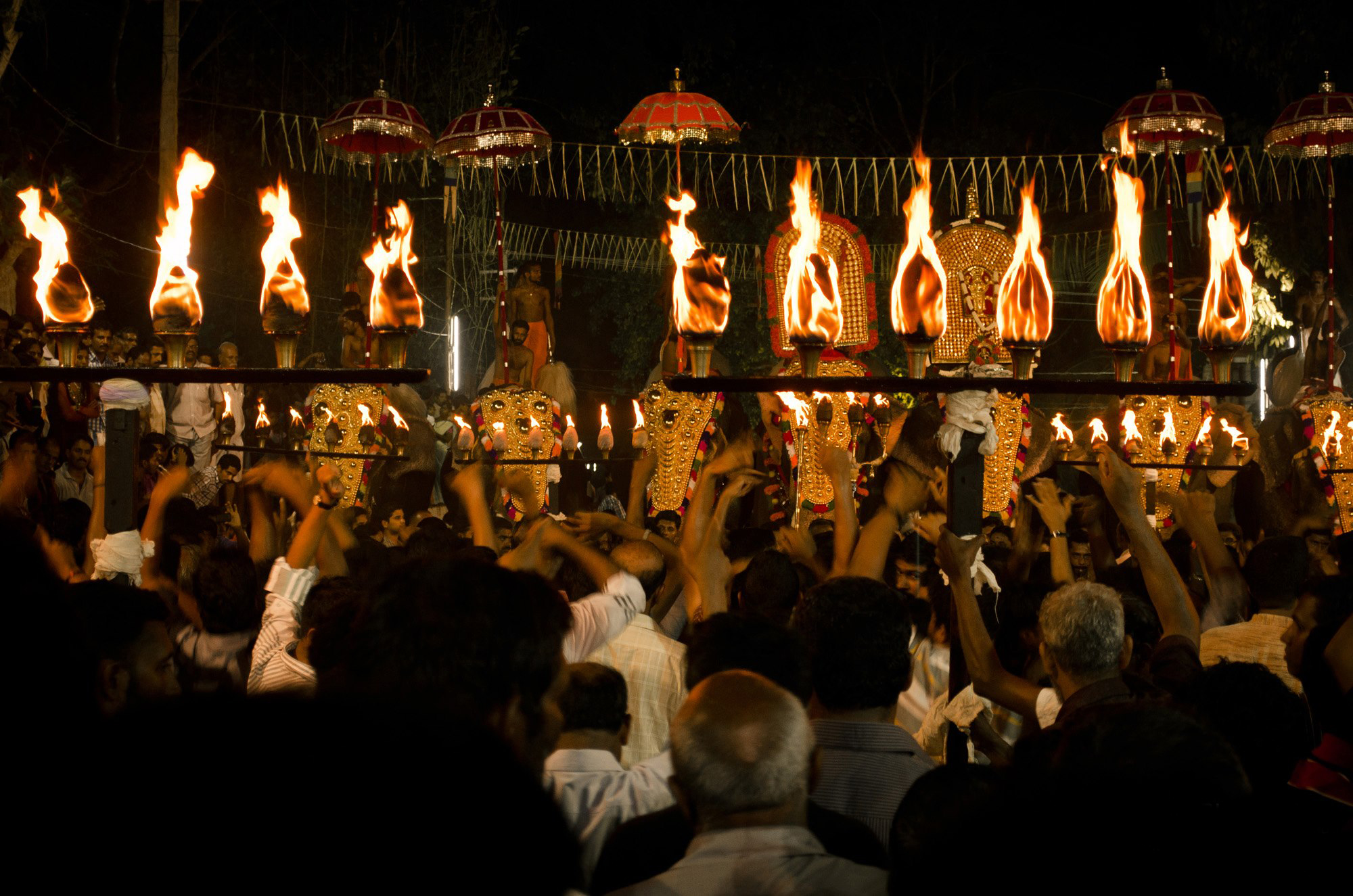 Photograph of Peruvanam Pooram Melam.